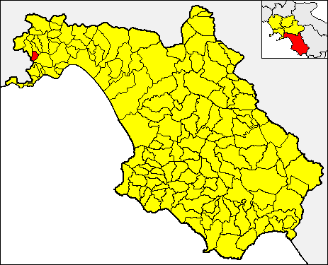 Locator map of the municipality of Corbara (red) within the Province of Salerno